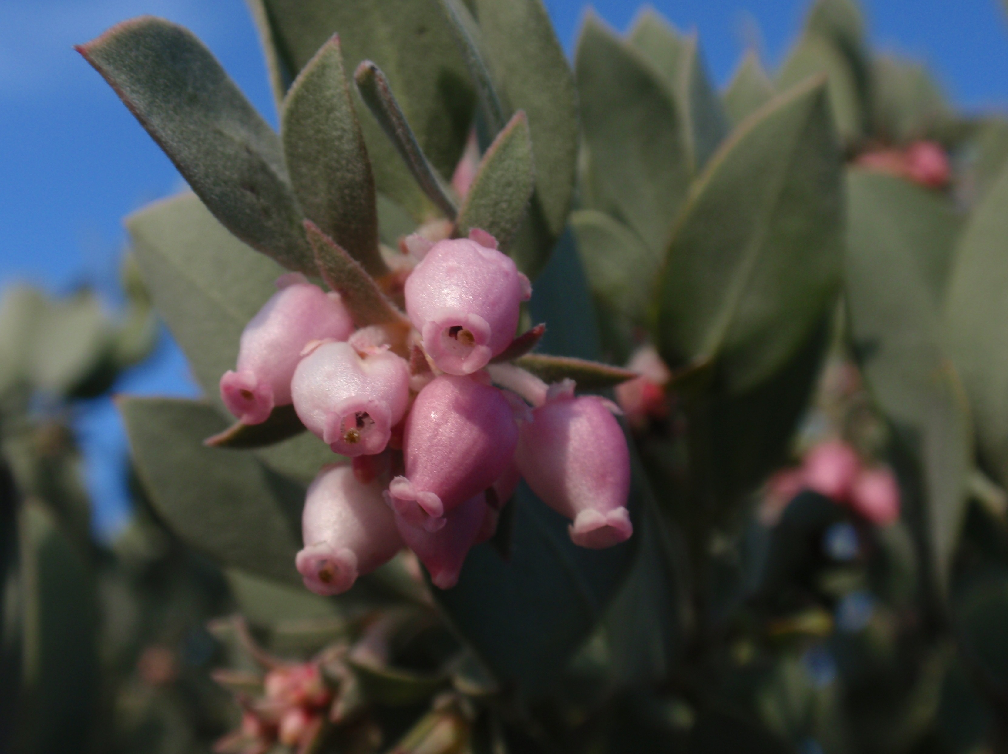 Arctostaphylos canescens on Mt. Tamalpais, California, USA